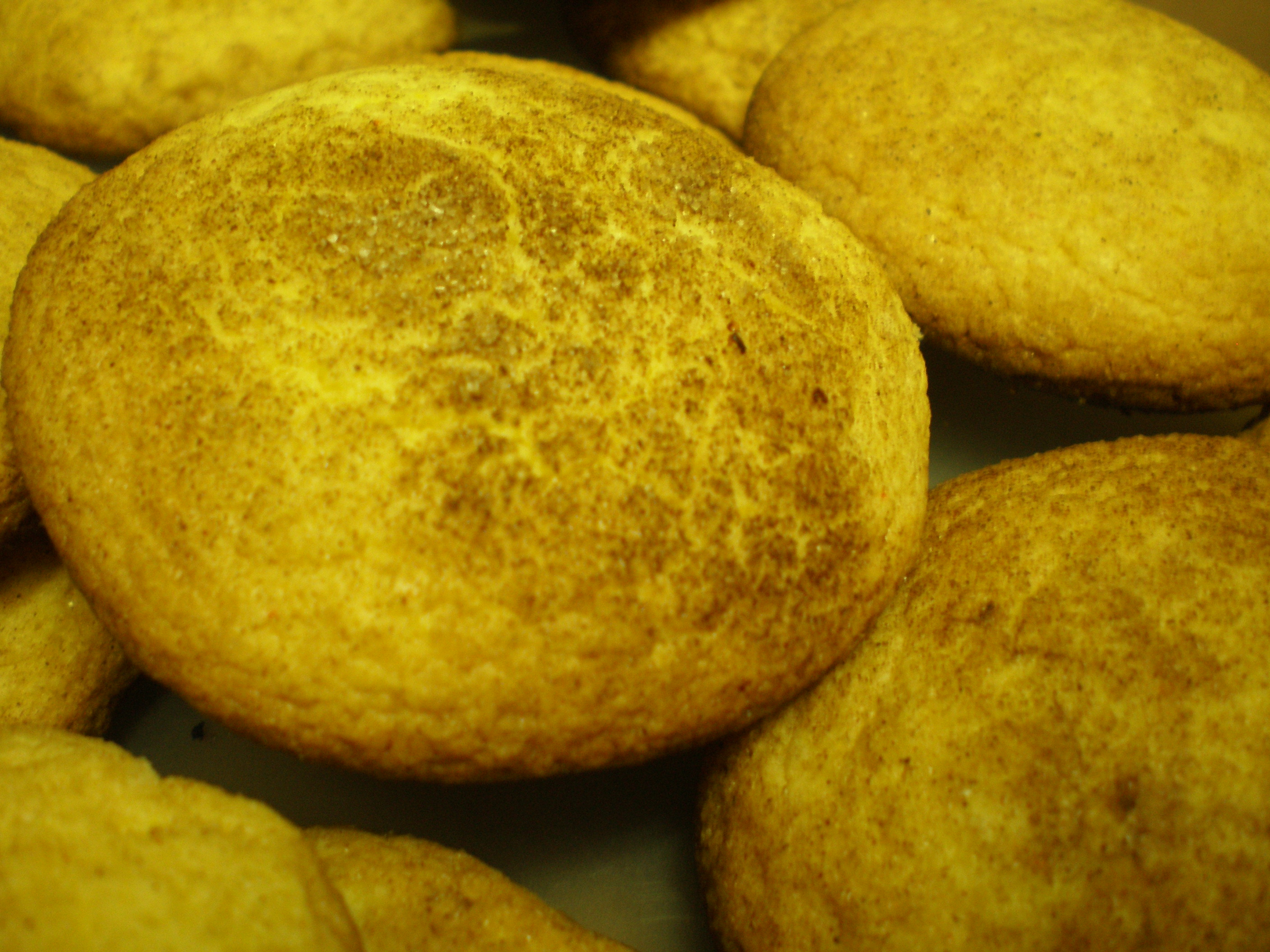 1 (21 ounce) box yellow cake mix 2 egg 1/3 cup vegetable oil 2 teaspoons vanilla 1/2 cup sugar 2 teaspoons cinnamon -Combine cake mix, eggs, oil and vanilla -combine sugar & cinnamon in a separate bowl -form little balls with the dough mixture, roll them in the cinnamon sugar, & then bake at 375 for about 5-10 minutes